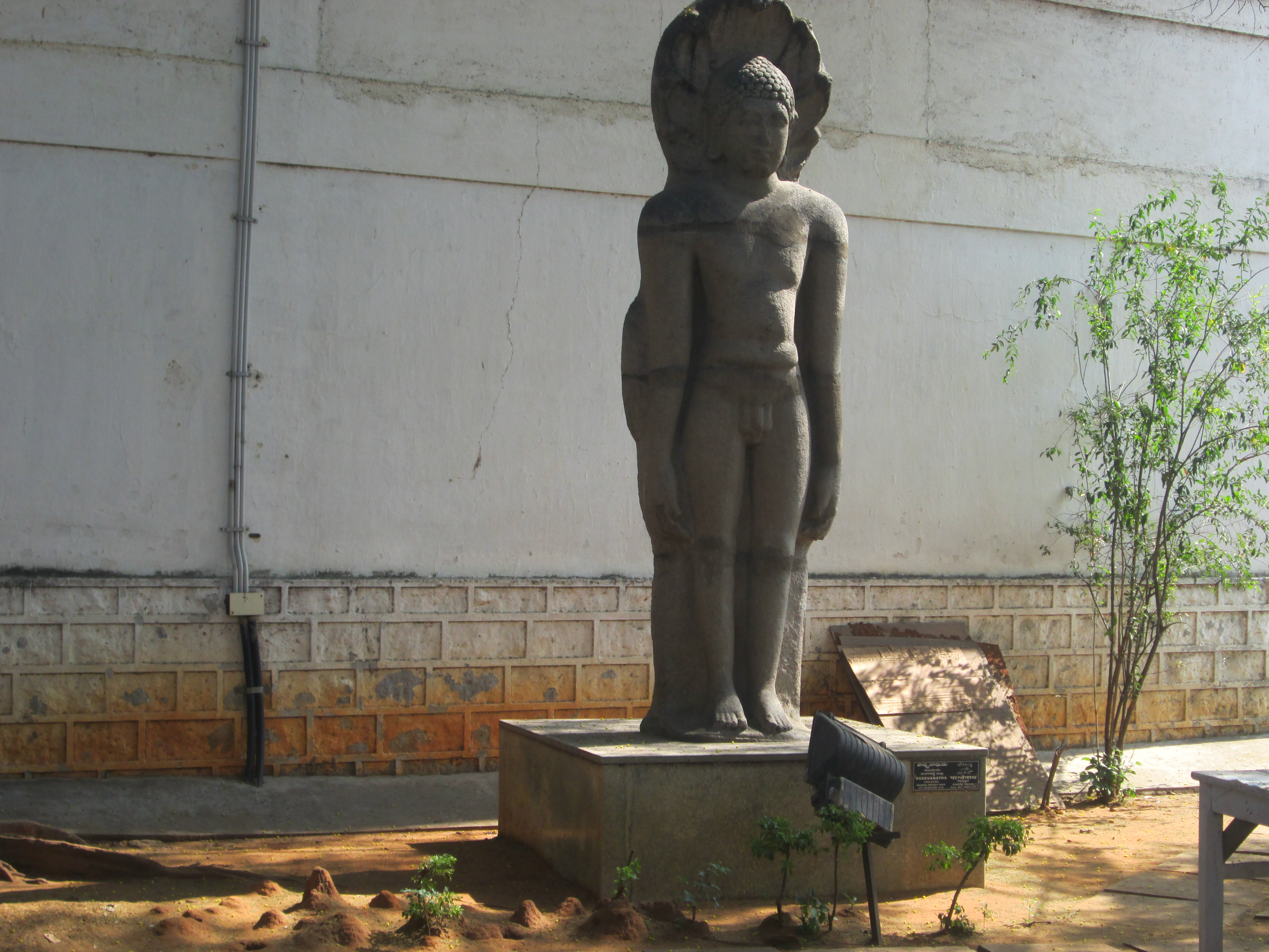 parshvantha of chilukuru, 12th century